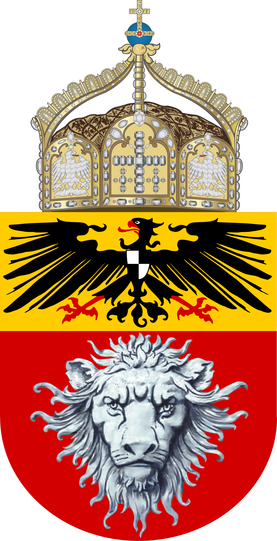 Proposed Coat of Arms for German East-Africa, 1914